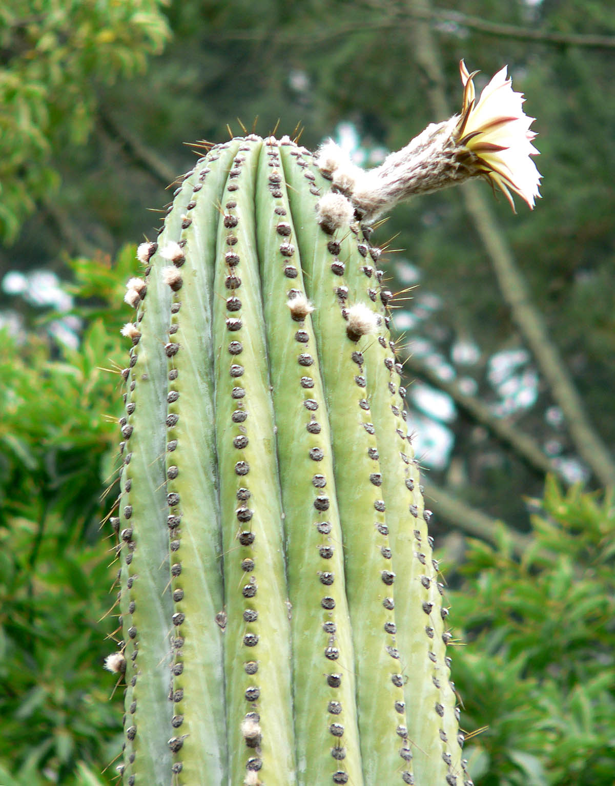 Photo of Echinopsis terscheckii at the University of California Botanical Garden